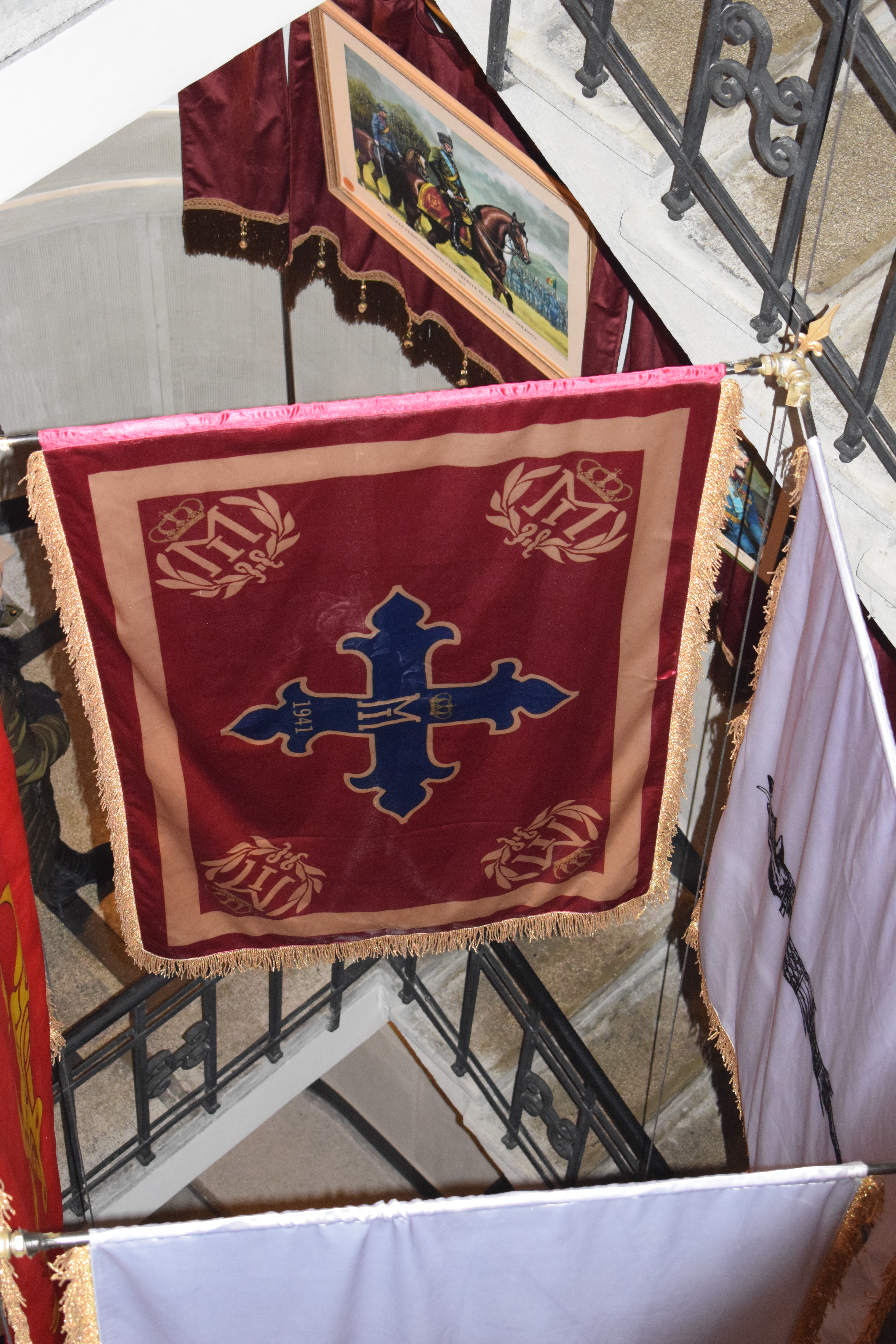 An 1941 war flag of the Knights of the Military Order "Mihai Viteazu" (Romania). The flag bears the blue "Mihai Viteazu" Cross at its center (a Christian symbol that is also present on some of the the personal banners of the Kings and Queens of Romania) and the Royal Cypher of HM King Michael I at the corners. The war flag was shown in the museum inside the Triumphal Arch in Bucharest, on the ocassion of the 160th celebration of Wallachia and Moldavia's National Union, in 1859.